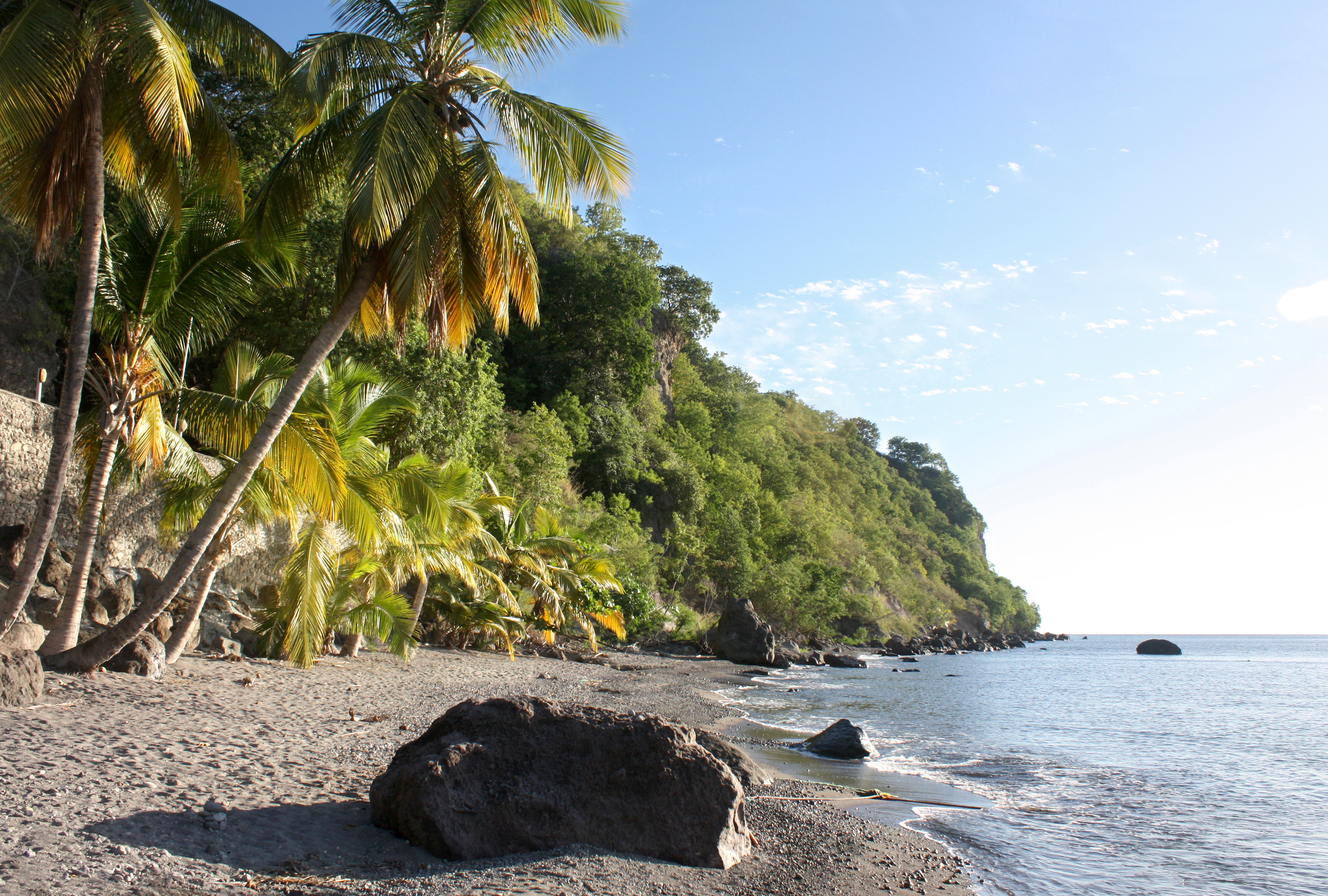 Batalie Bay, Dominica; view south.